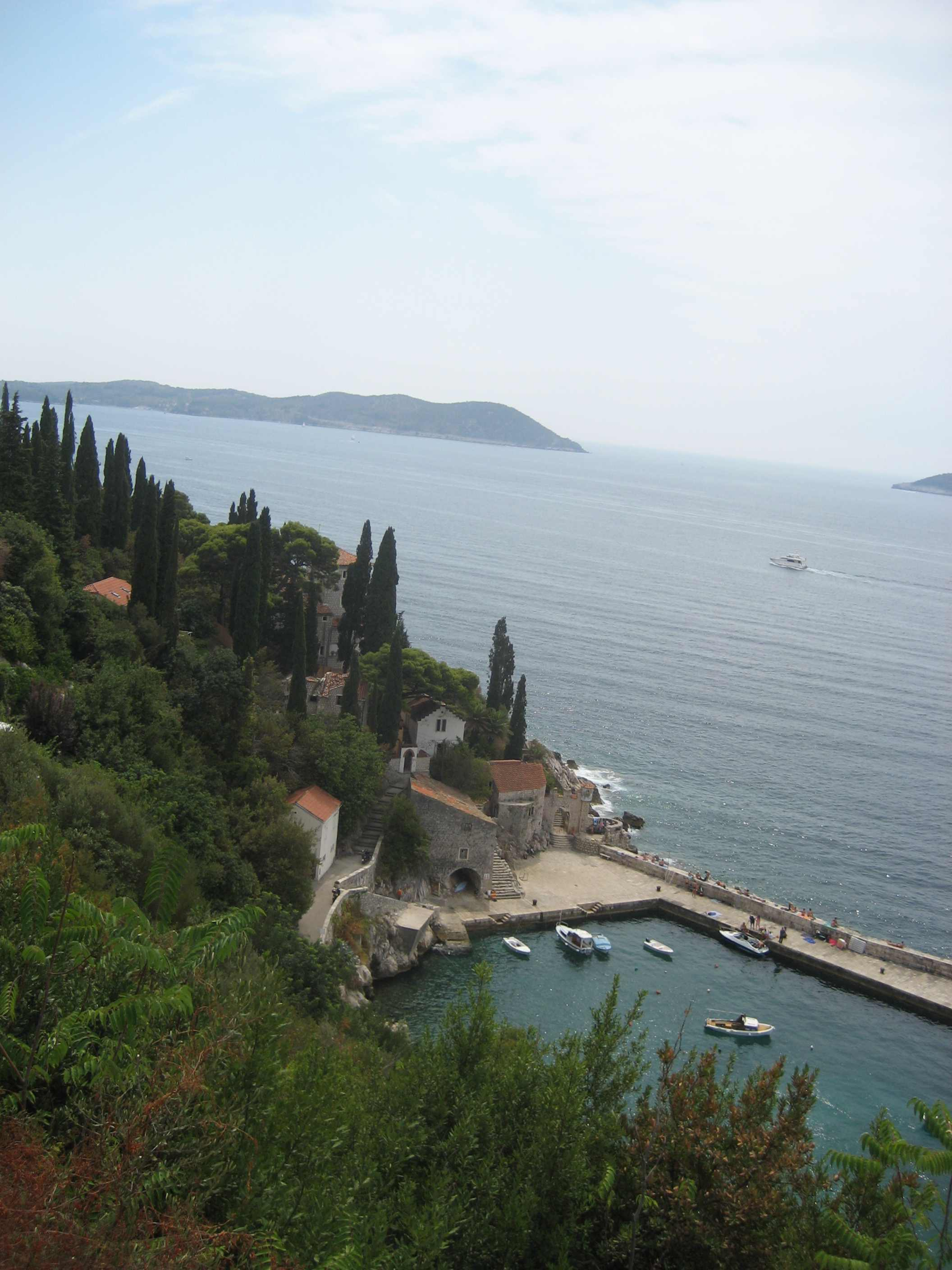 Trsteno-2, view from Arboretum, near Dubrovnik, Croatia